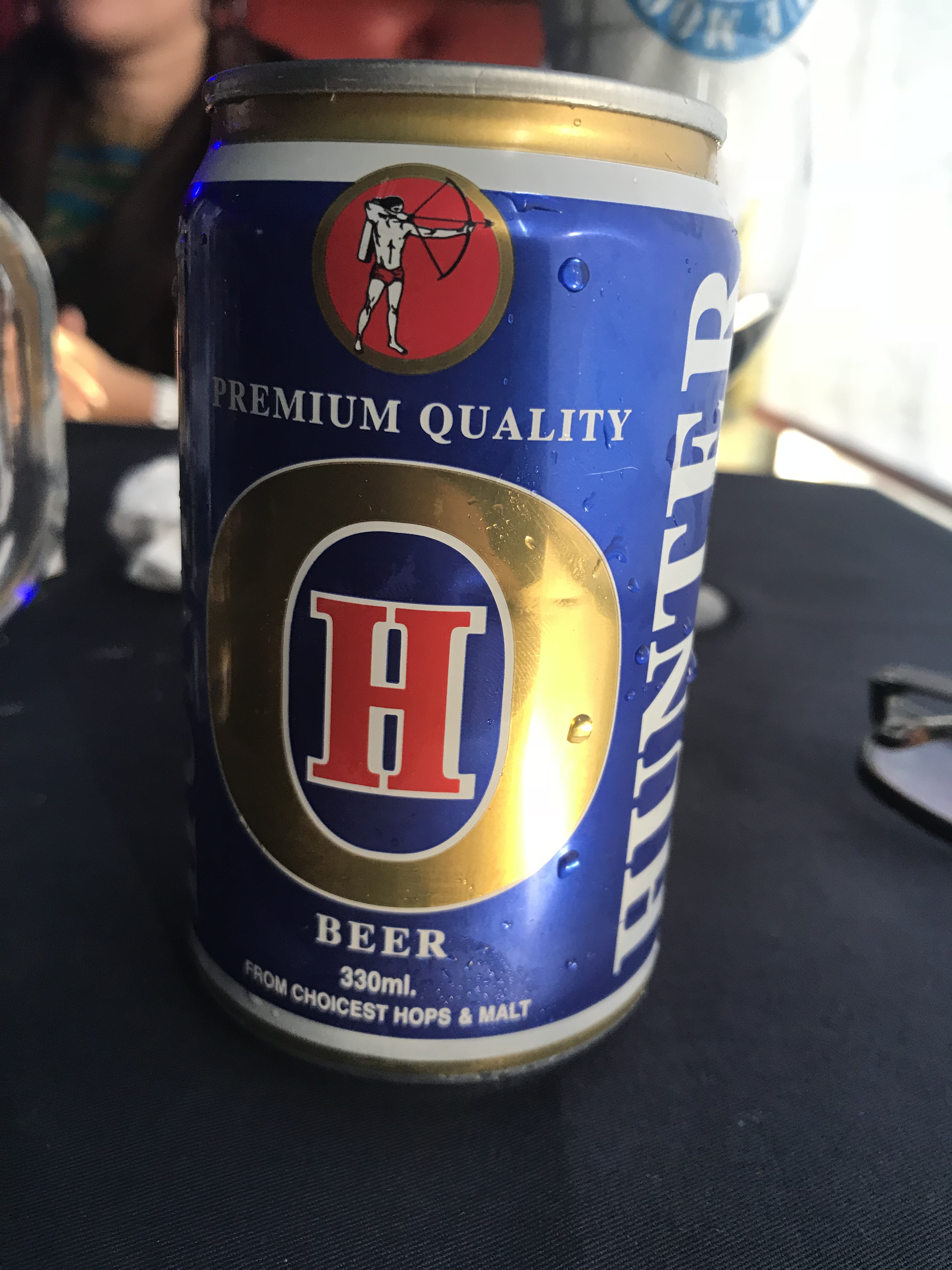 Picture of Bangladesh Hunter Beer